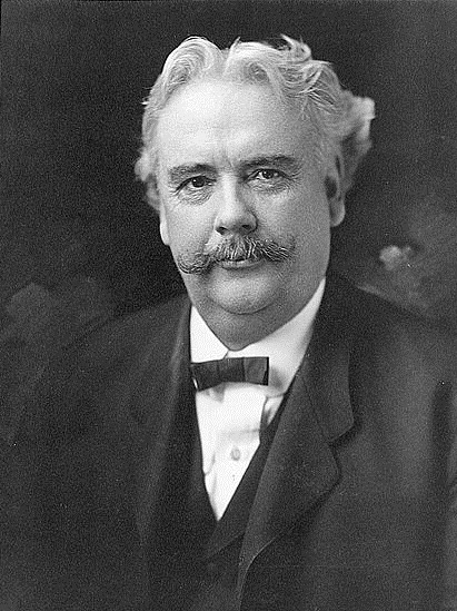 William John McGee